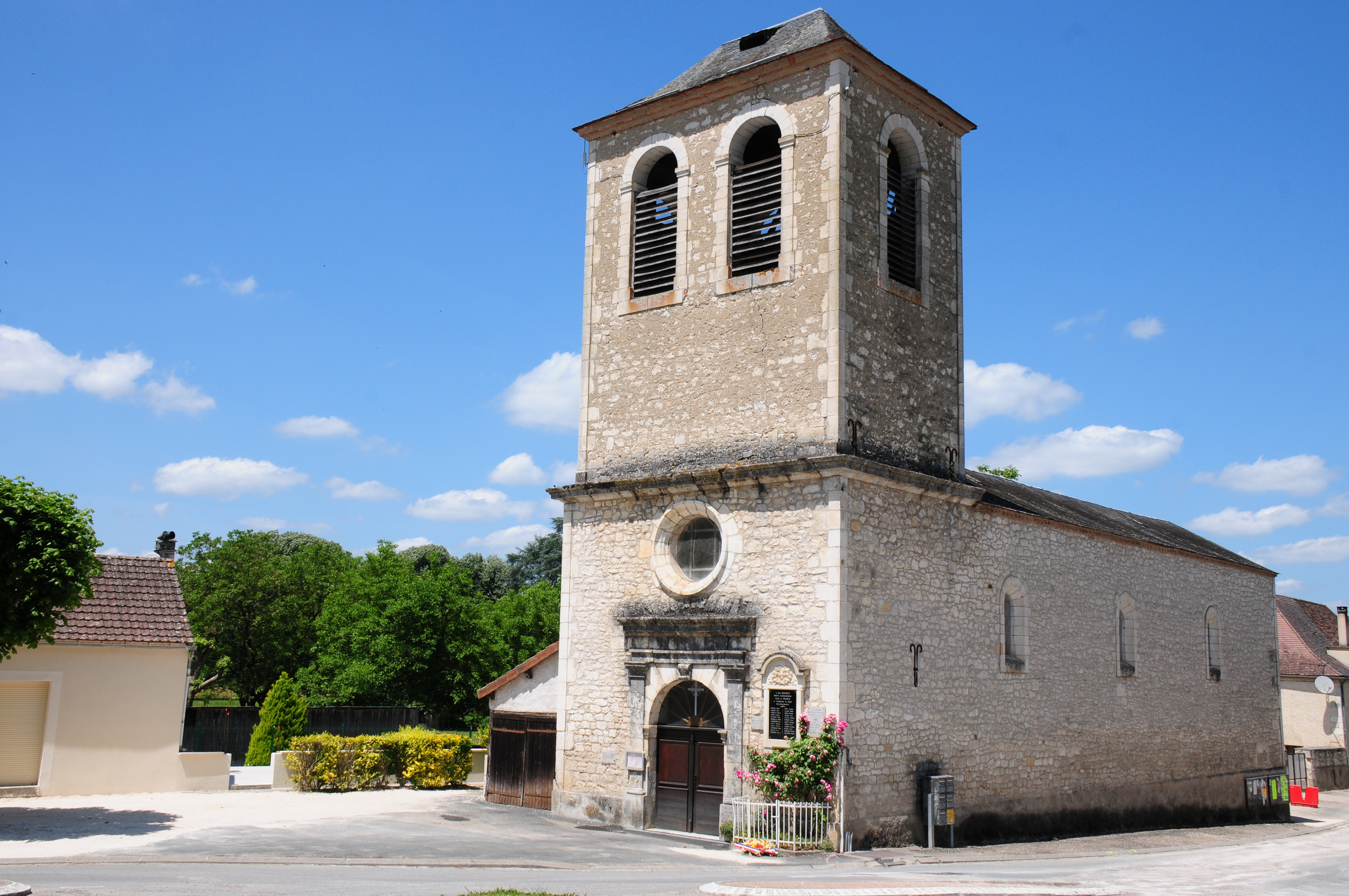 Church of Le Roc Lot/Dordogne at 2 June 2015